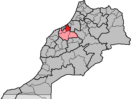 Location of the province Ben Slimane in the region Chaouia-Ouardigha, Morocco.